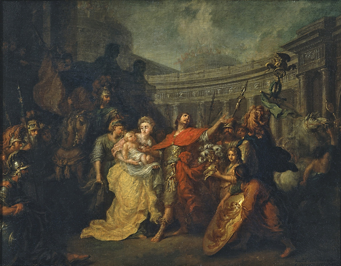 Farewell of Hector and Andromache (study) (painting by Anton Losenko, 1773)